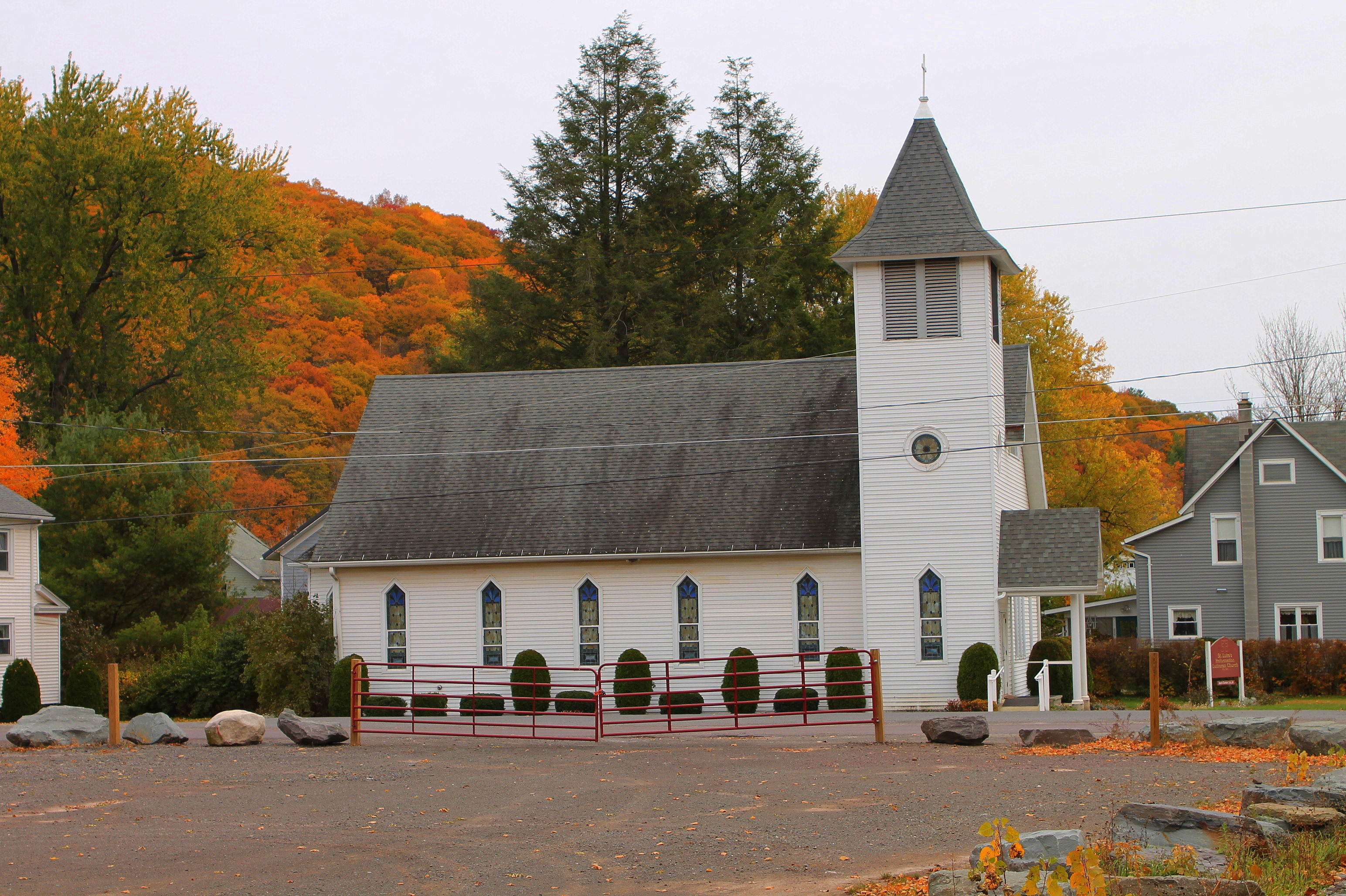 Church in Noxen, Pennsylvania, surrounded by fall foliage